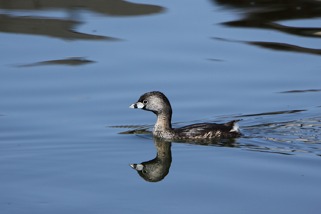 Pied-billed Grebe Podilymbus podiceps in breeding plumage, San Luis Obispo, California.